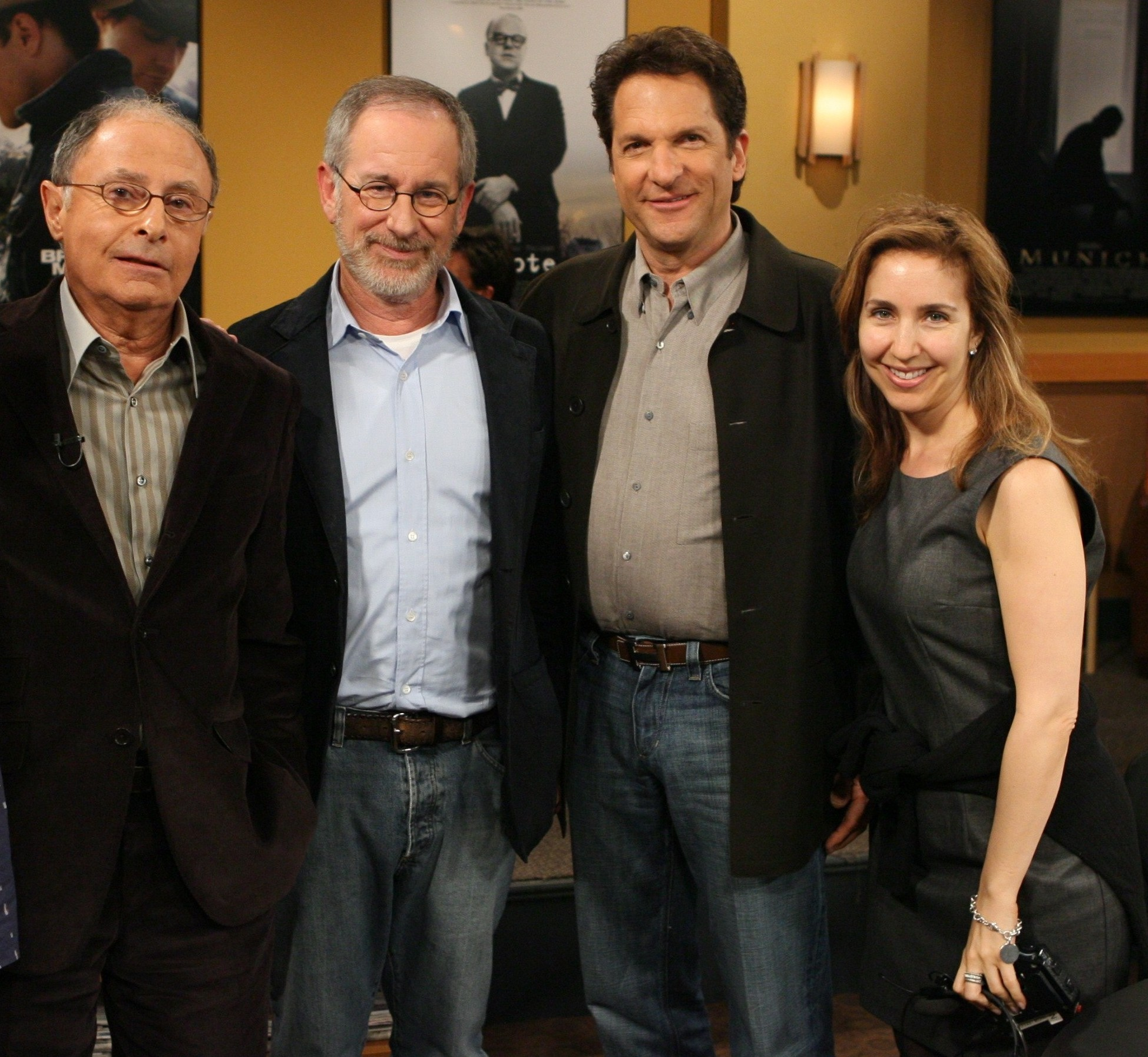 Jacquie Jordan with Peter Bart (host), Steven Spielberg (guest on the show), and Peter Guber (host), left to right